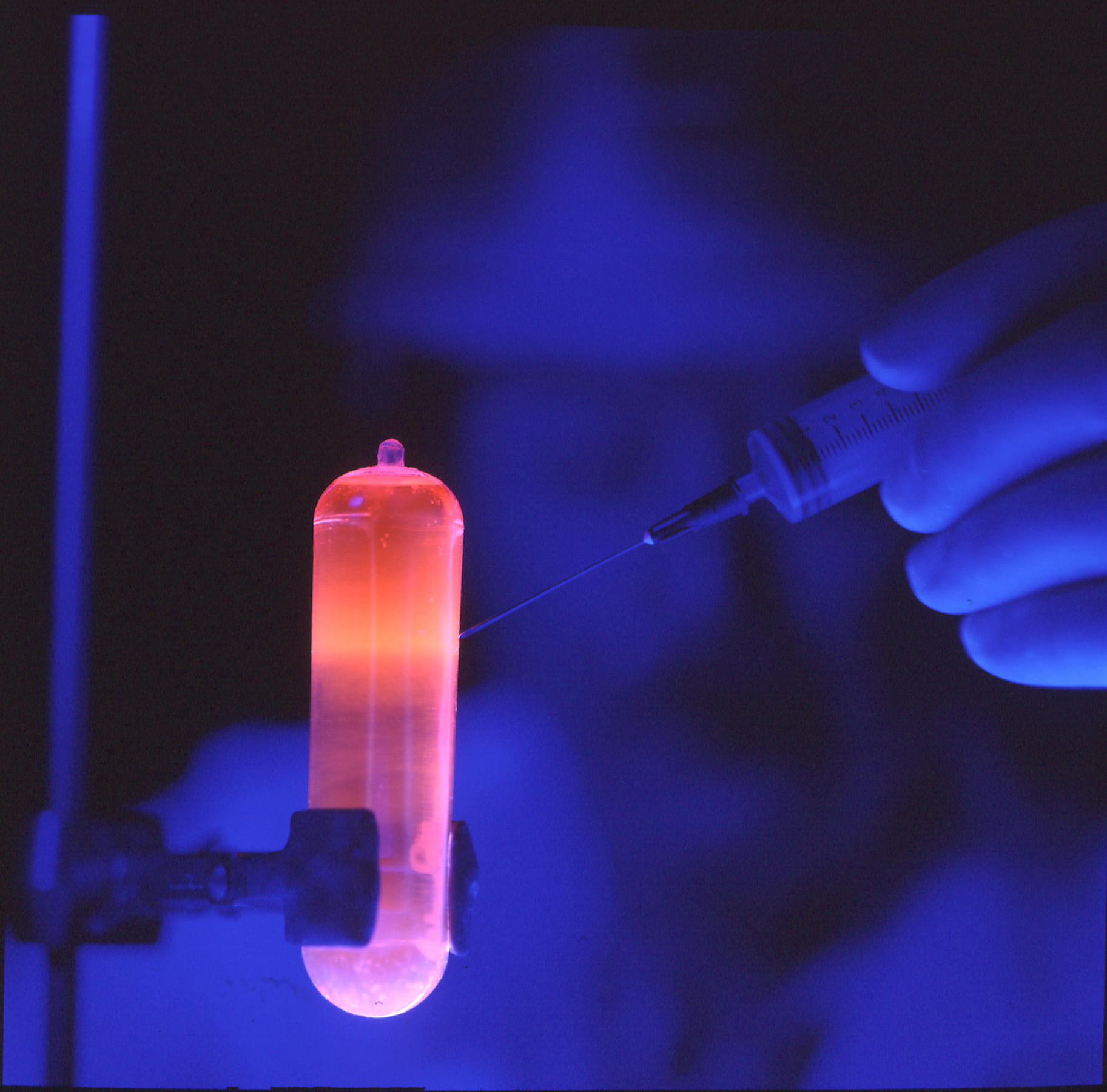 Title DNA Purification Description A purified DNA, fluorescing orange under UV light, being extracted with a syringe and used for molecular biology studies. The purified DNA, in a cesium chloride gradient, binds to the ethidium bromide dye which absorbs UV light and makes the DNA fluoresce orange. This visualization of a single band of DNA aids in the isolation and extraction of the DNA for future molecular biology studies. Topics/Categories Science and Technology -- Genetics Type Color, Photo Source Dr. Bruce Chassey Laboratory. National Institute Of Dental Research. Li-shan.